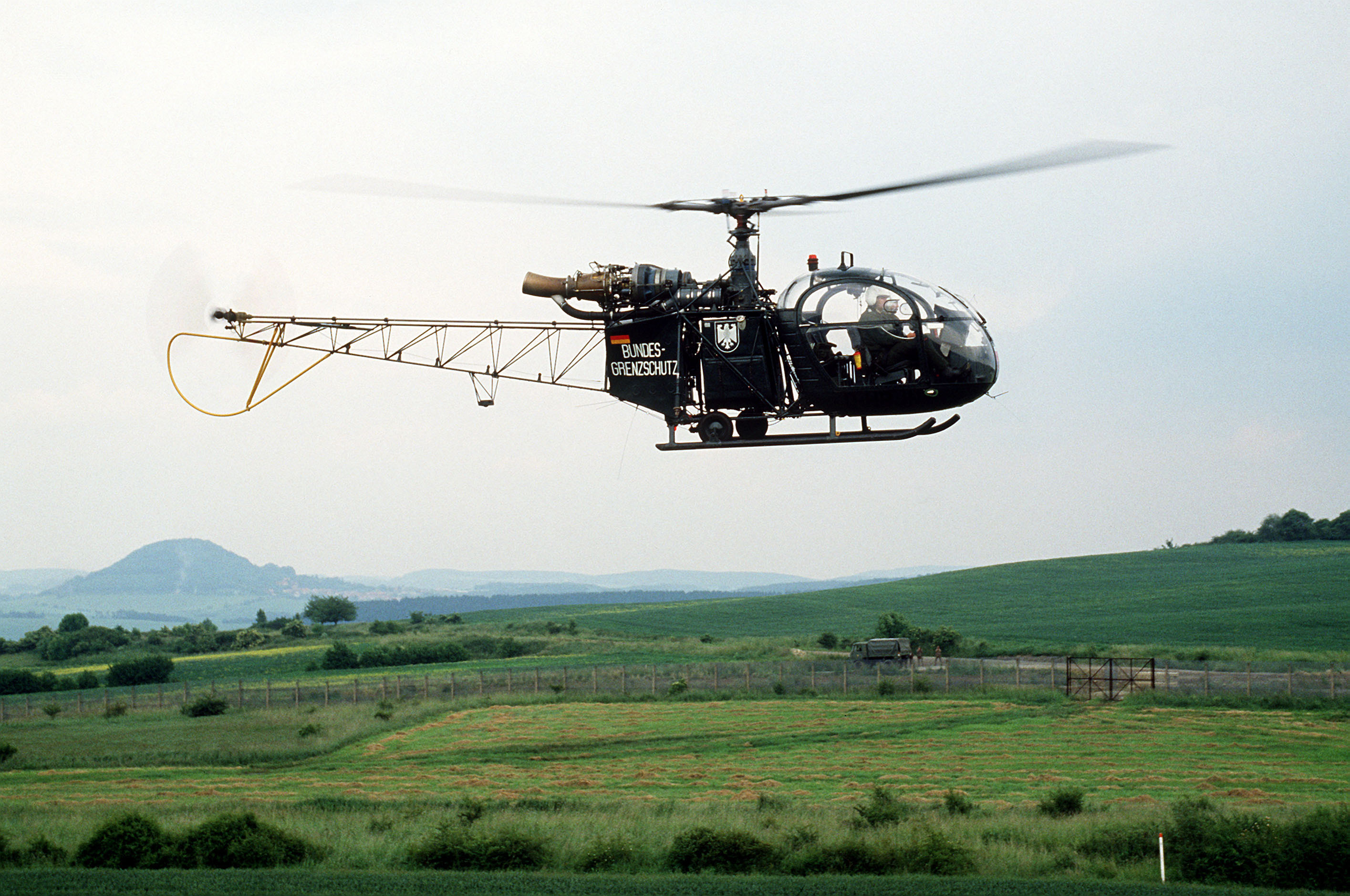 West German Aerospatiale Alouette II helicopter patrolling the East German border. East German border guards are in the background. Image was renamed because it shows a Alouette II, not a Alouette III